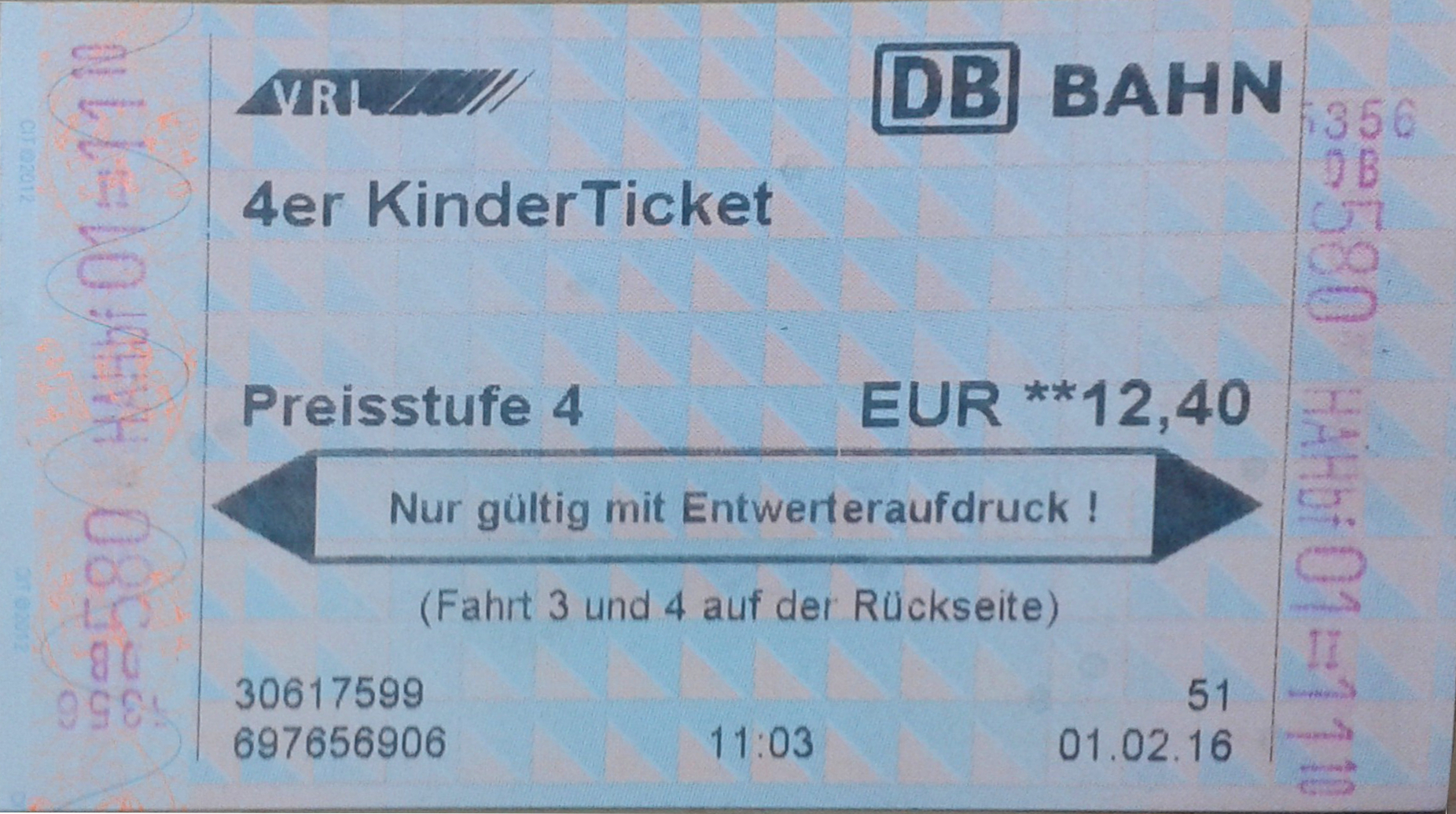 A four rides children ticket of price level 4 of the Verkehrsgemeinschaft Ruhr-Lippe (Western Germany), issued on February 1, 2016